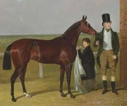 Painting of the British racehorse Vespa with her owner, Sir Mark Wood, detail from a painting by John Frederick Herring, Sr. 1795-1865. Author dead for 147 years.